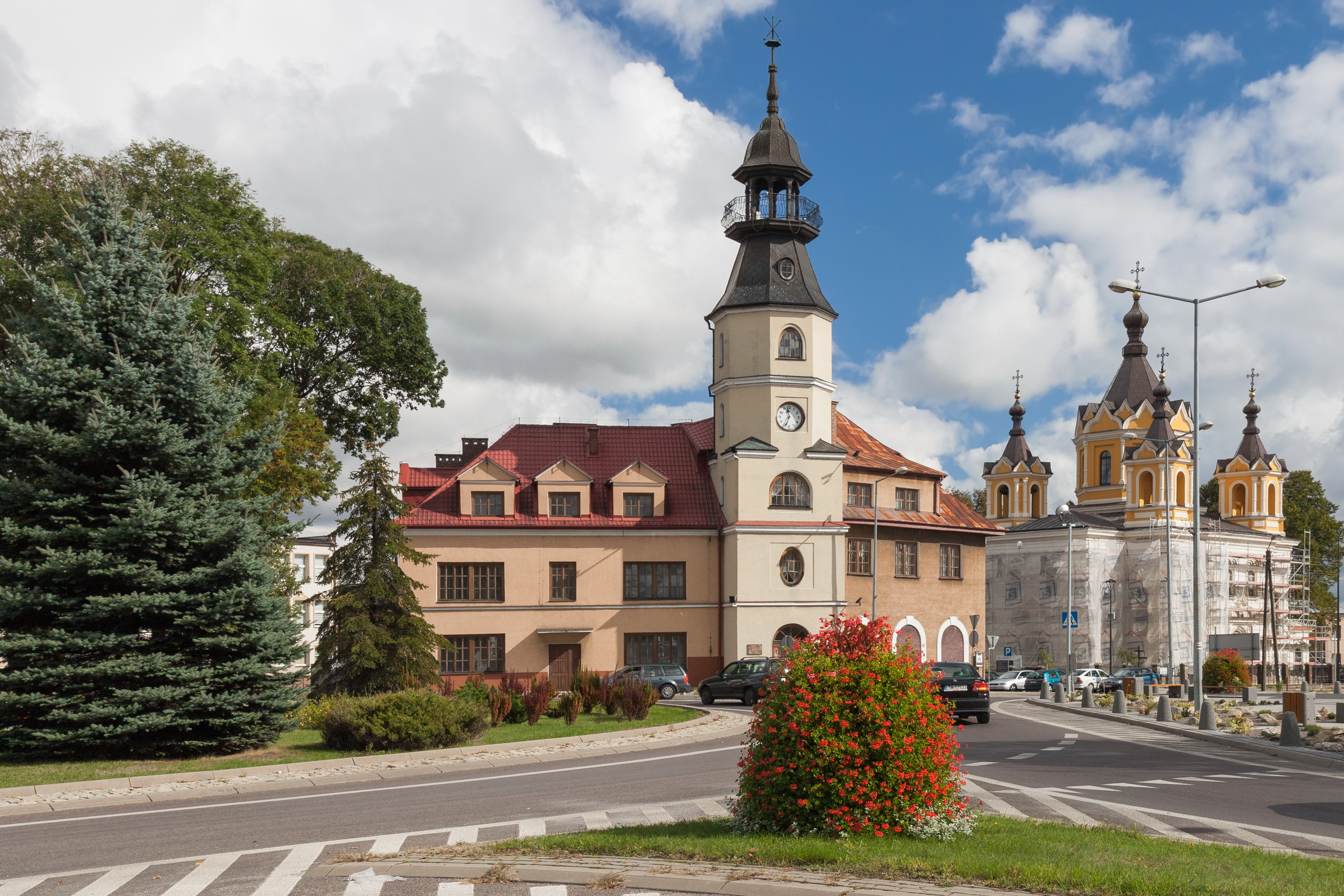 The building of the Music School. Tomaszów Lubelski, Lublin Voivodeship, Poland.